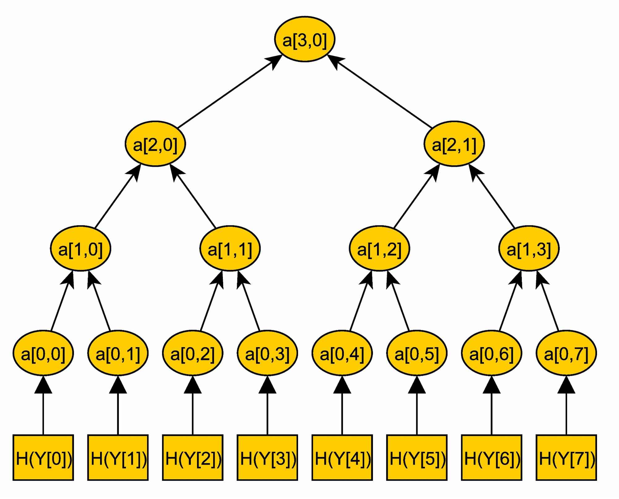 A Merkle Tree with 8 leafs.